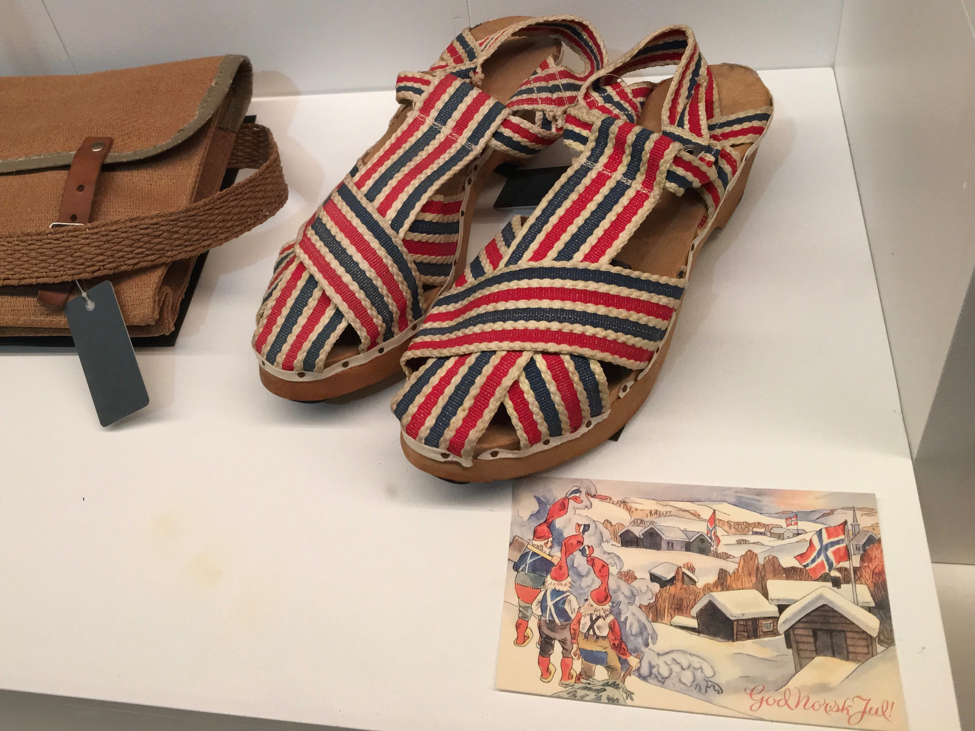 The Austerity of Occupation: Sandals wirh wooden soles and in Norwegian colours, Also wartime Christmas card 1941 with "nisser", red caps and Norwegian flags. Symbols of national unity against the Nazi authorities. Photo taken on 2017-11-30 at the exhibition of Norway's WW2 Resistance Museum (Hjemmefrontmuseet) at Akershus fortress in Oslo, Norway.